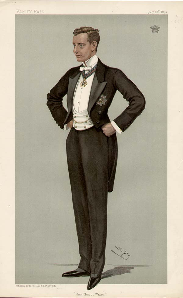 Caricature of William Lygon, 7th Earl Beauchamp. Caption read "New South Wales".